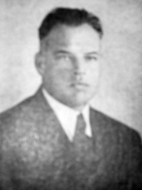 Vladimír Černý (February 2, 1895, Prague – Nusle - April 8, 1943, Berlin-Charlotenburg) - member of the Czechoslovak legions in Italy, military pilot (staff captain of the Air Force), civilian pilot (chief pilot of aviatic firm Avia), holder of several national aviation records , during the Protectorate a member of the Defense of the Nation and chairman of the illegal committee of the Union of Pilots of the Czechoslovak Republic. In February 1940 he was arrested by the Gestapo, interrogated, imprisoned in German prisons and finally sentenced to death for resistance activities and executed by guillotine on April 8, 1943 in Berlin-Charlotenburg.